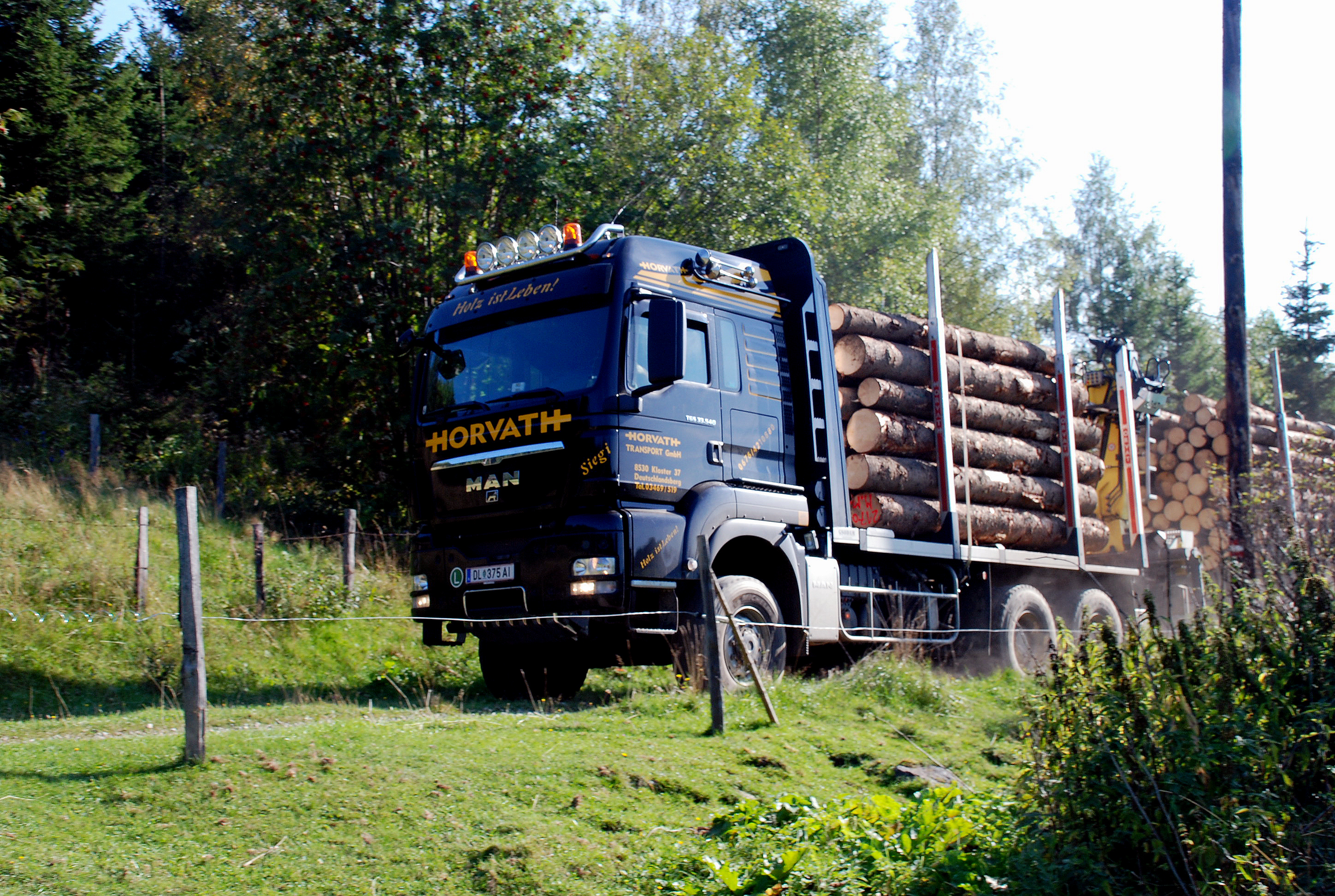 Transport of timber in the woods of Styria, Austria (Woods of Obere Glashütte, southern Koralpe, Soboth)